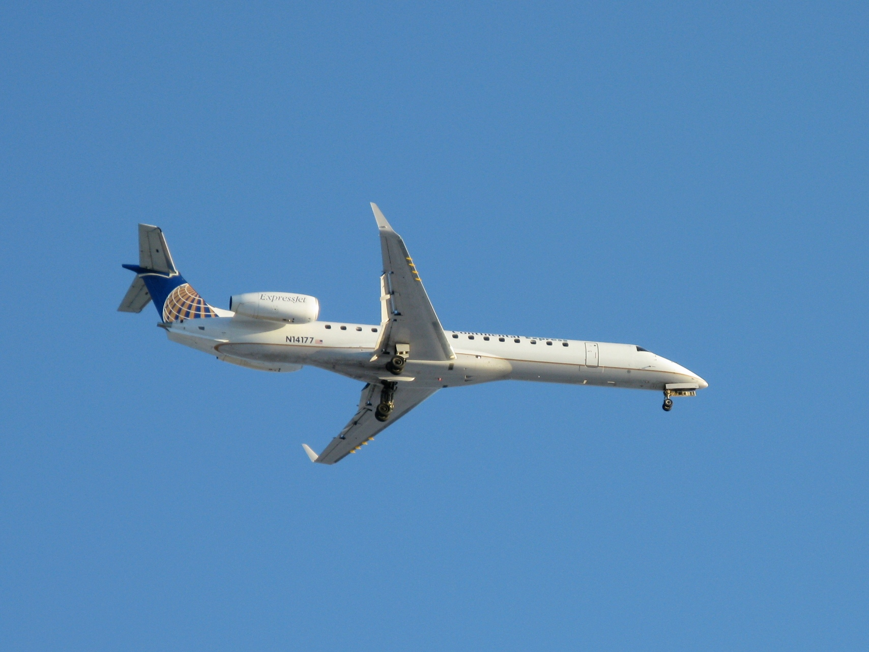 A Continental Express (ExpressJet Airlines) Embraer ERJ-145XR (civil registration : N14177) on final for runway 24R at Montréal-Trudeau International Airport (YUL/CYUL).